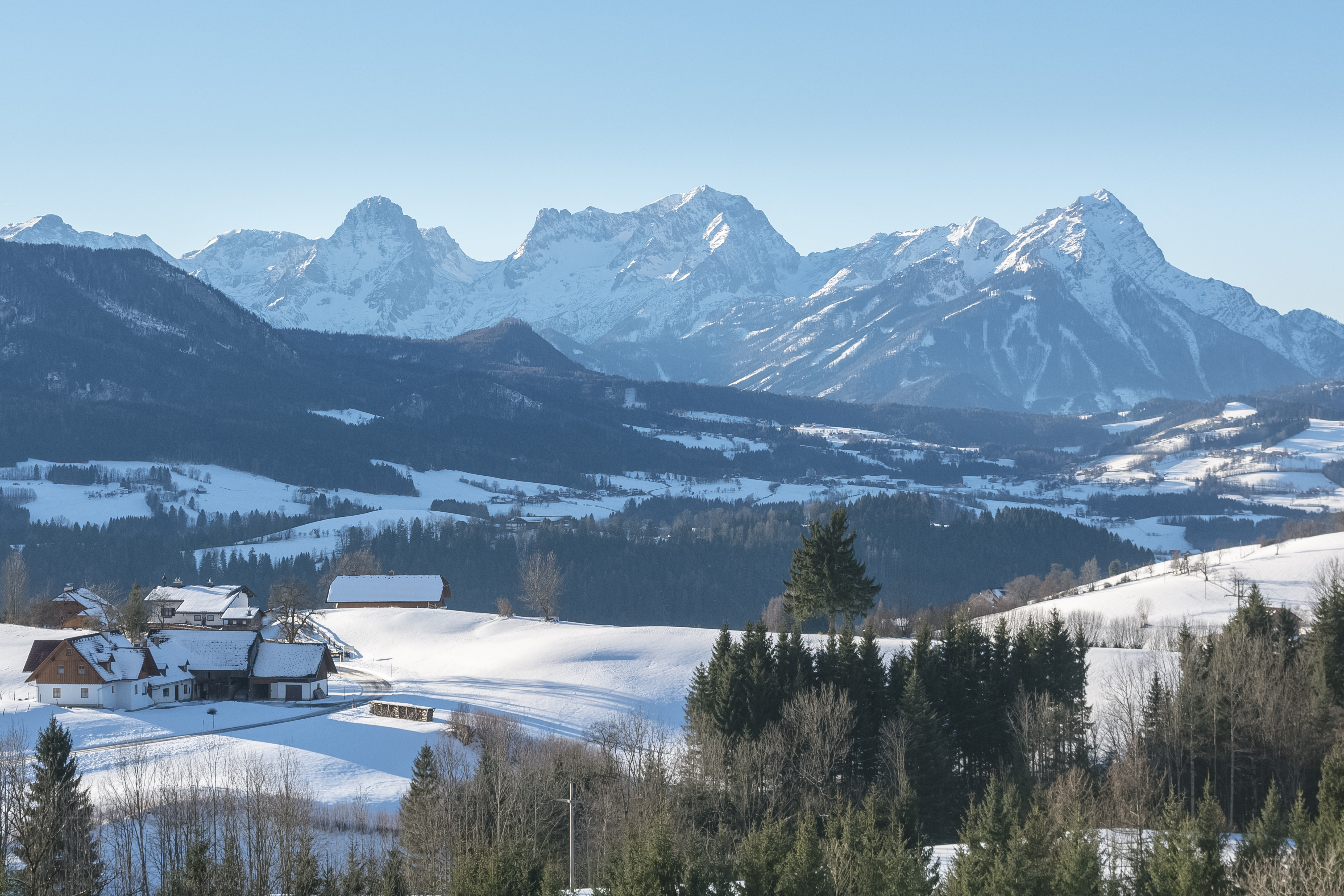 Großer Priel (2515 m) is the highest peak in the Totes Gebirge. The eastern crest at the right is is ending with Kleiner Priel (2136 m). In the south of the main peak there is Brotfall (2380 m), the ravine Klinserscharte (1805 m) and Spitzmauer (2446 m). Behind the whole crest there is the central plateau of Totes Gebirge.